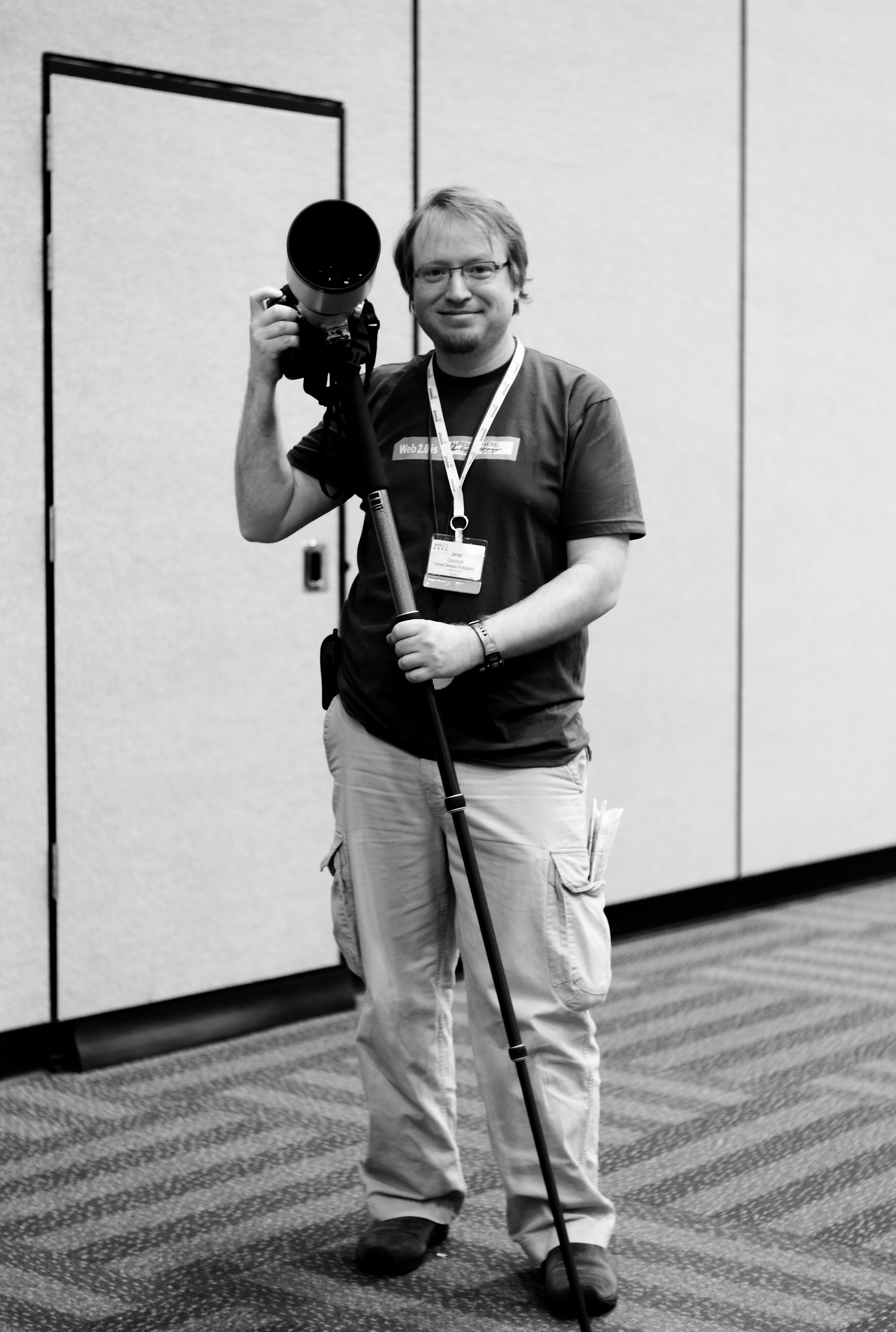 James Duncan Davidson